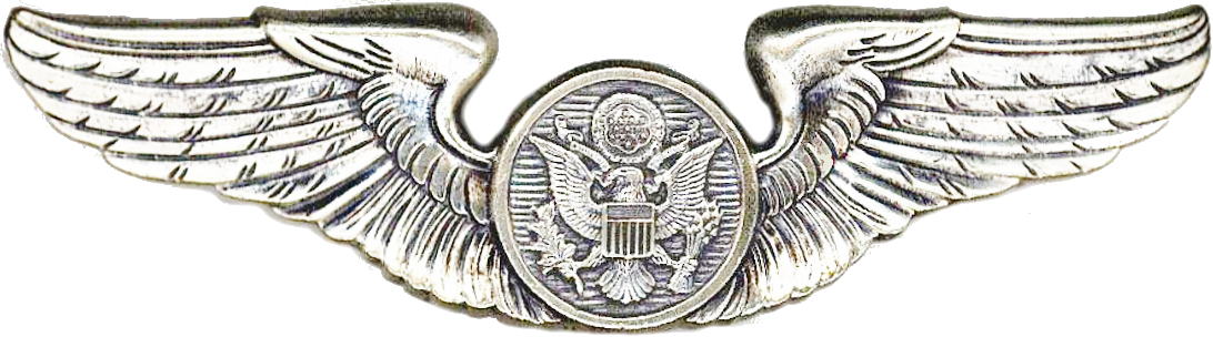 U.S. Army Air Force Aircrew Badge, circa 1942